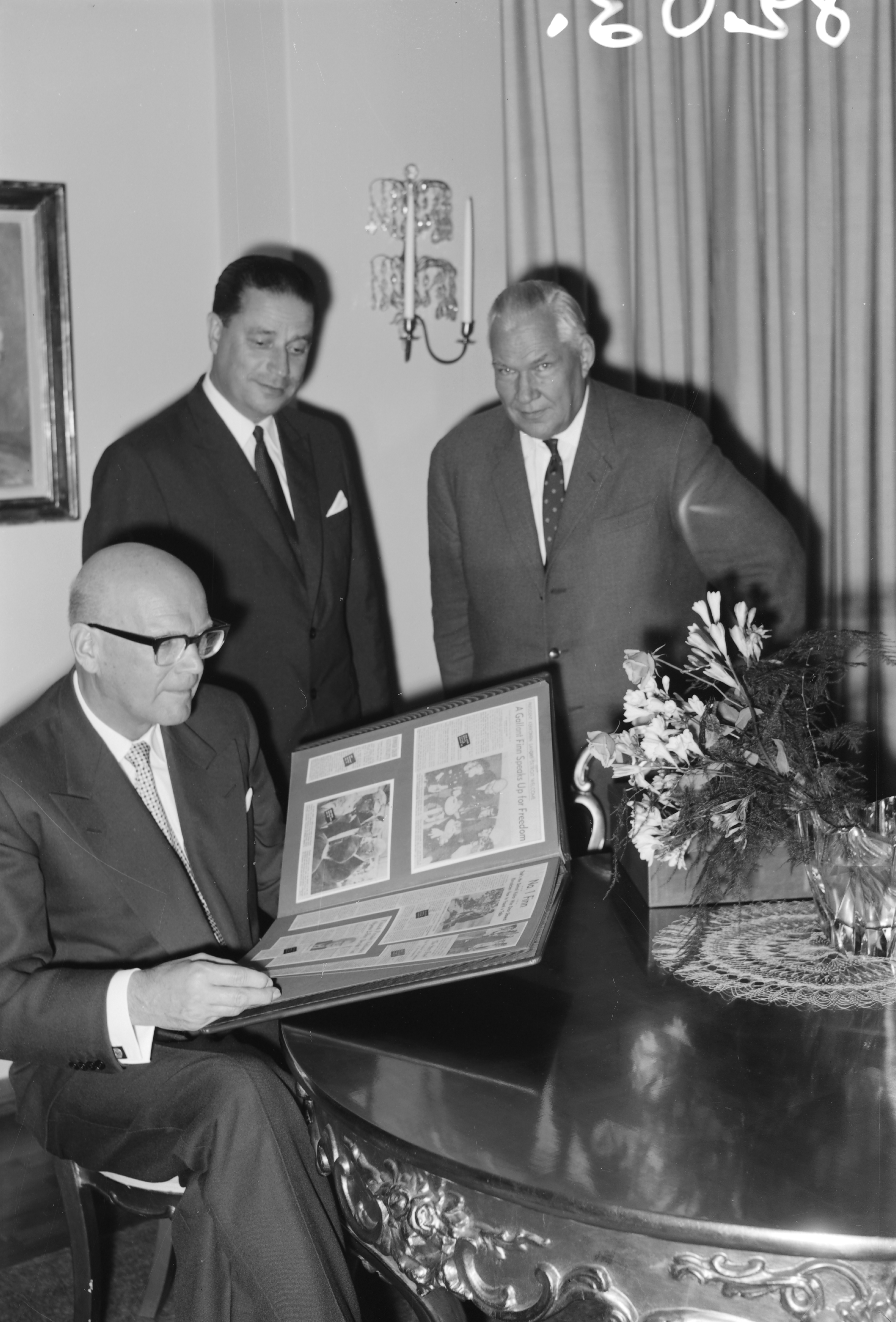 Photograph of President Urho Kekkonen and managing director of Neste, Uolevi Raade, looking at newspaper clippings.